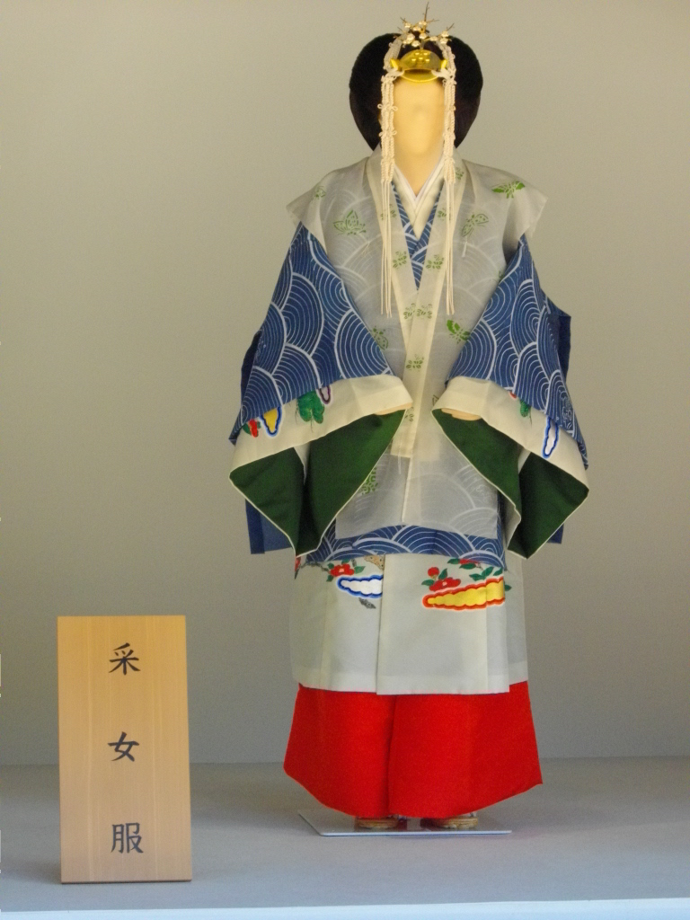 Uneme-Fuku(Garment for the maidservants)